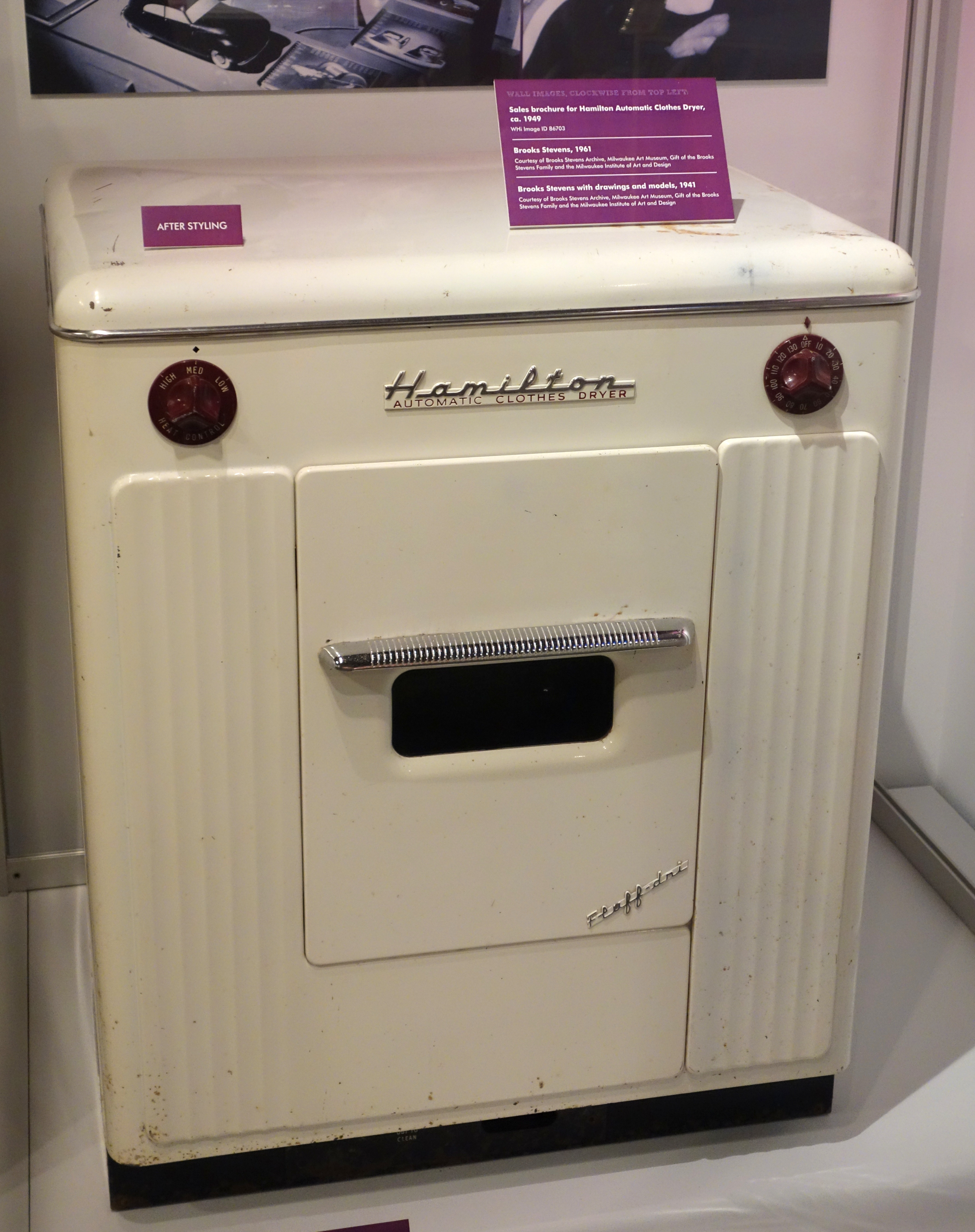 Exhibit in the Wisconsin Historical Museum, Madison, Wisconsin, USA. This item is old enough so that it is in the public domain.